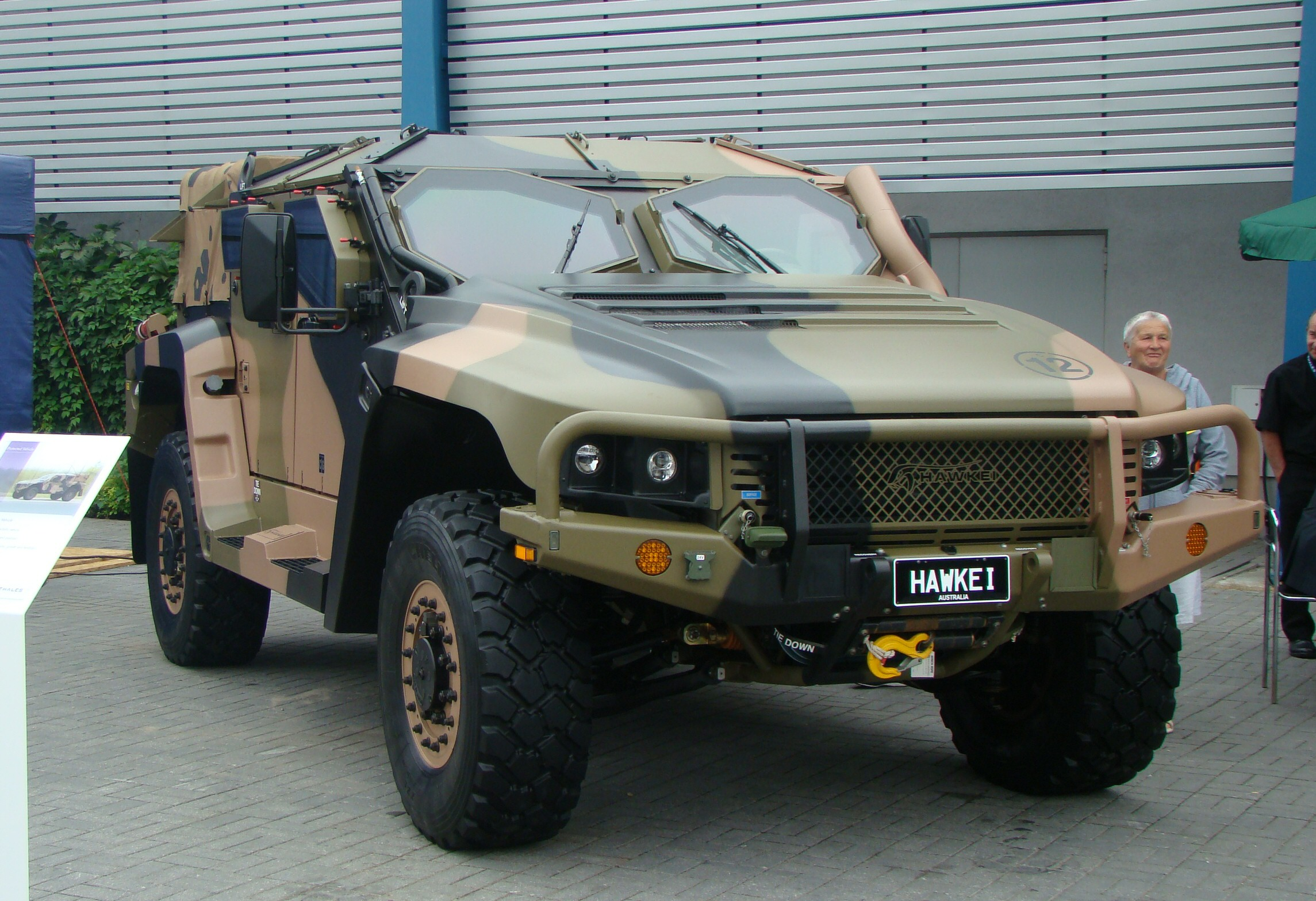 Hawkei at MSPO 2014, Poland